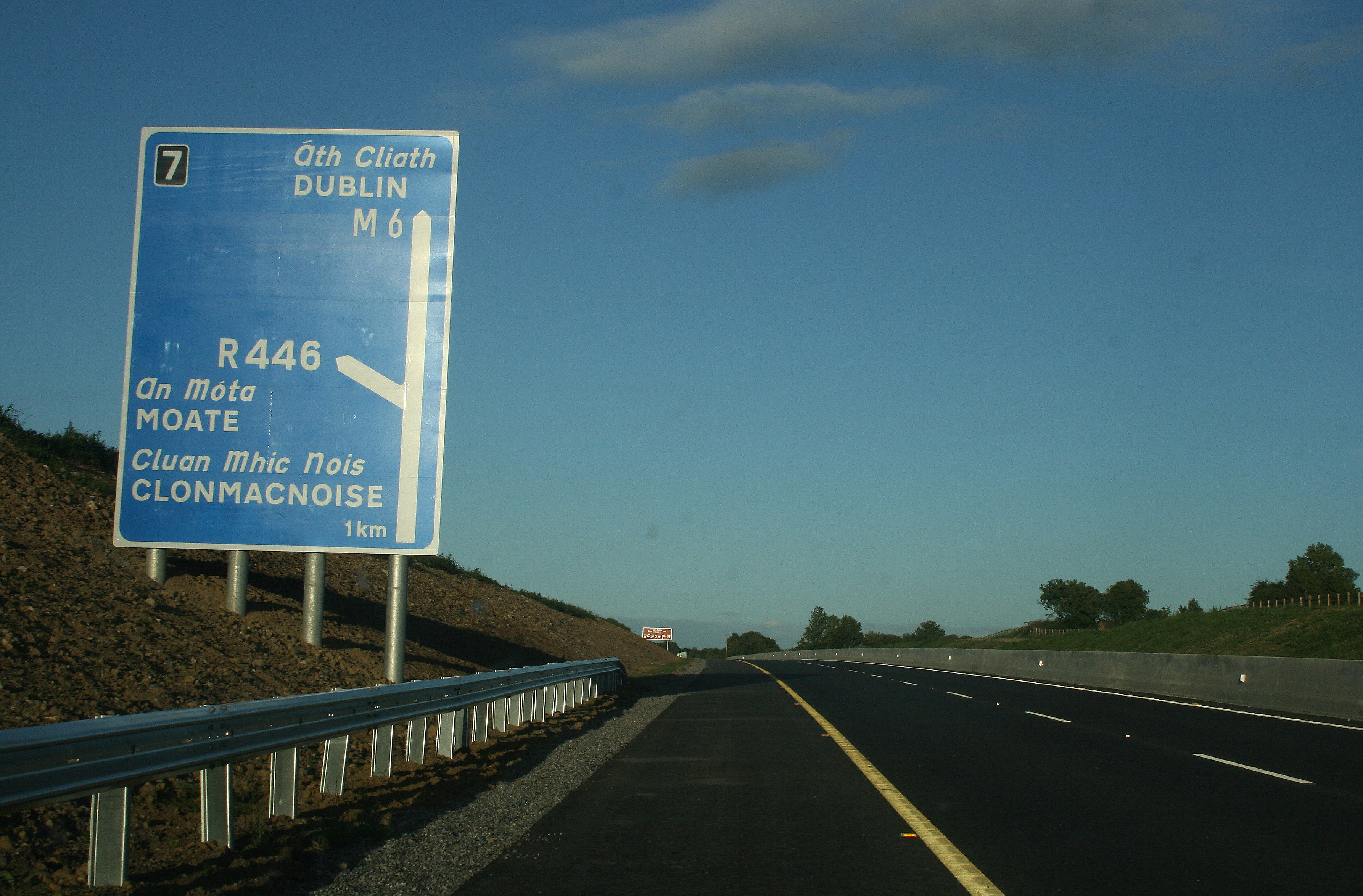 The M6 motorway heading east near Athlone, County Westmeath, Ireland.